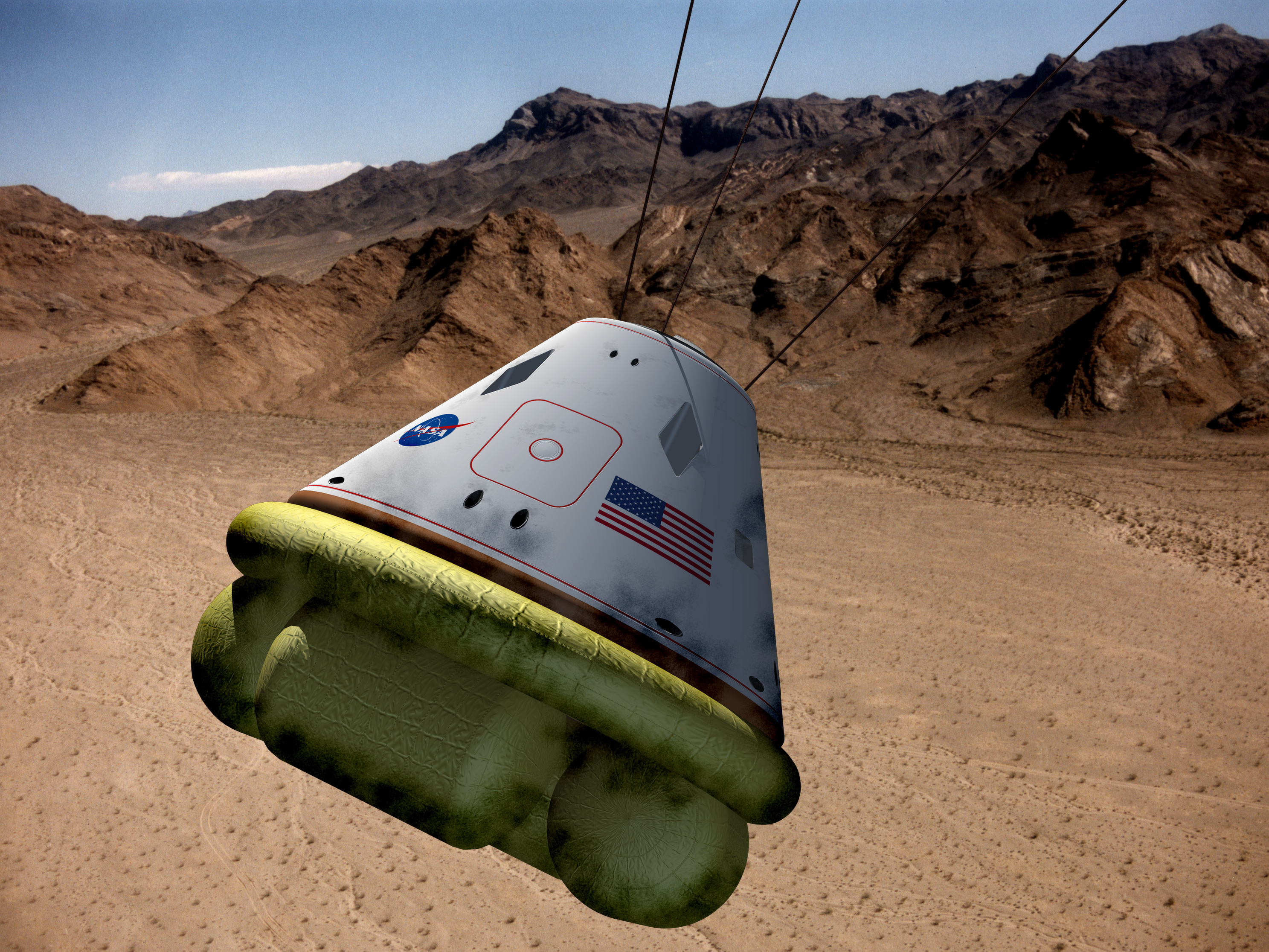 A concept image (CGI model and photo background) of a Crew Exploration Vehicle performing an earth landing. [1]